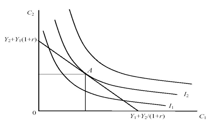 The figure depicts the intertemporal choice made given the utility level and the budget constraint.